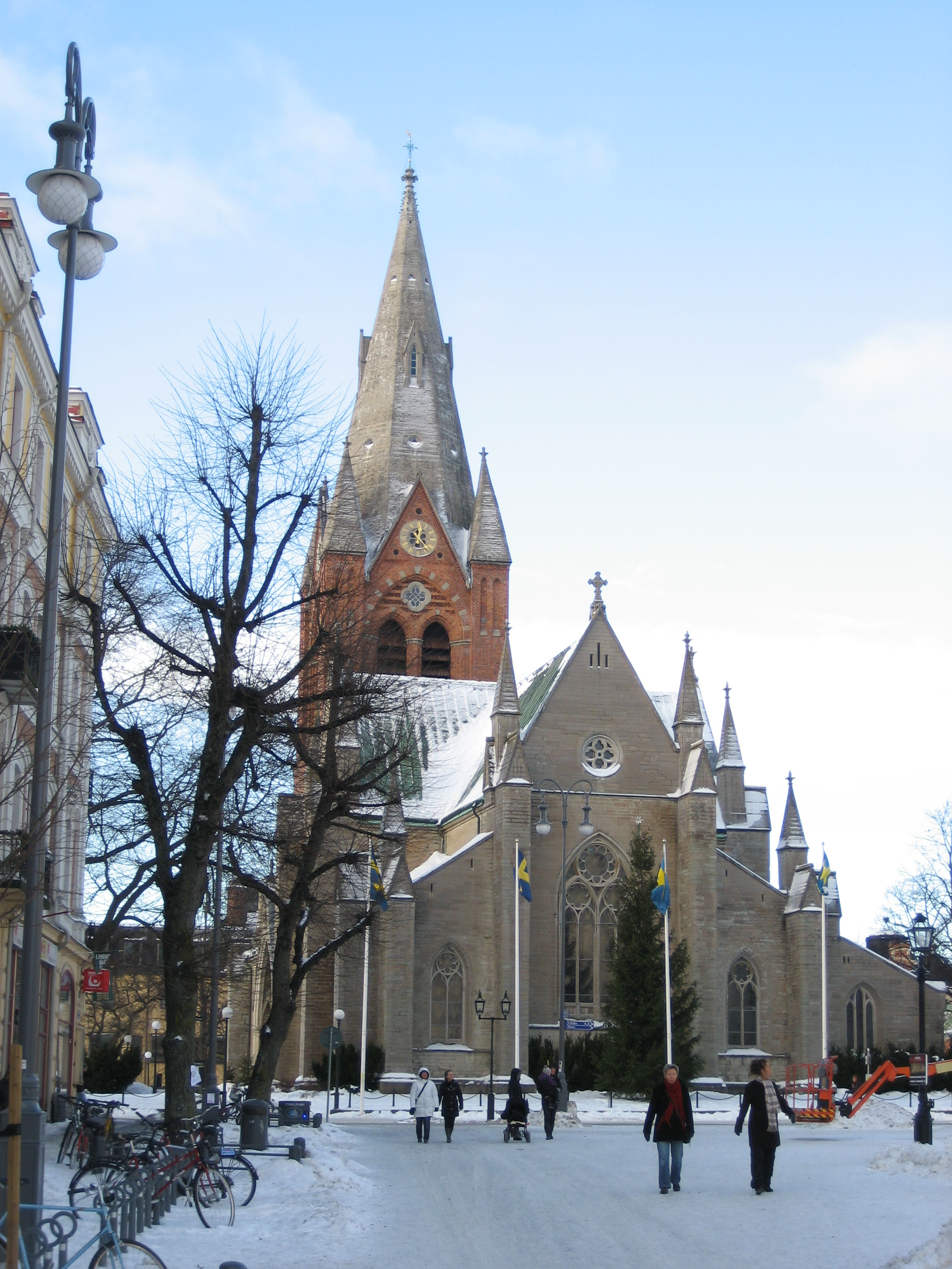 Sankt Nicolai kyrka, Örebro, Sweden.